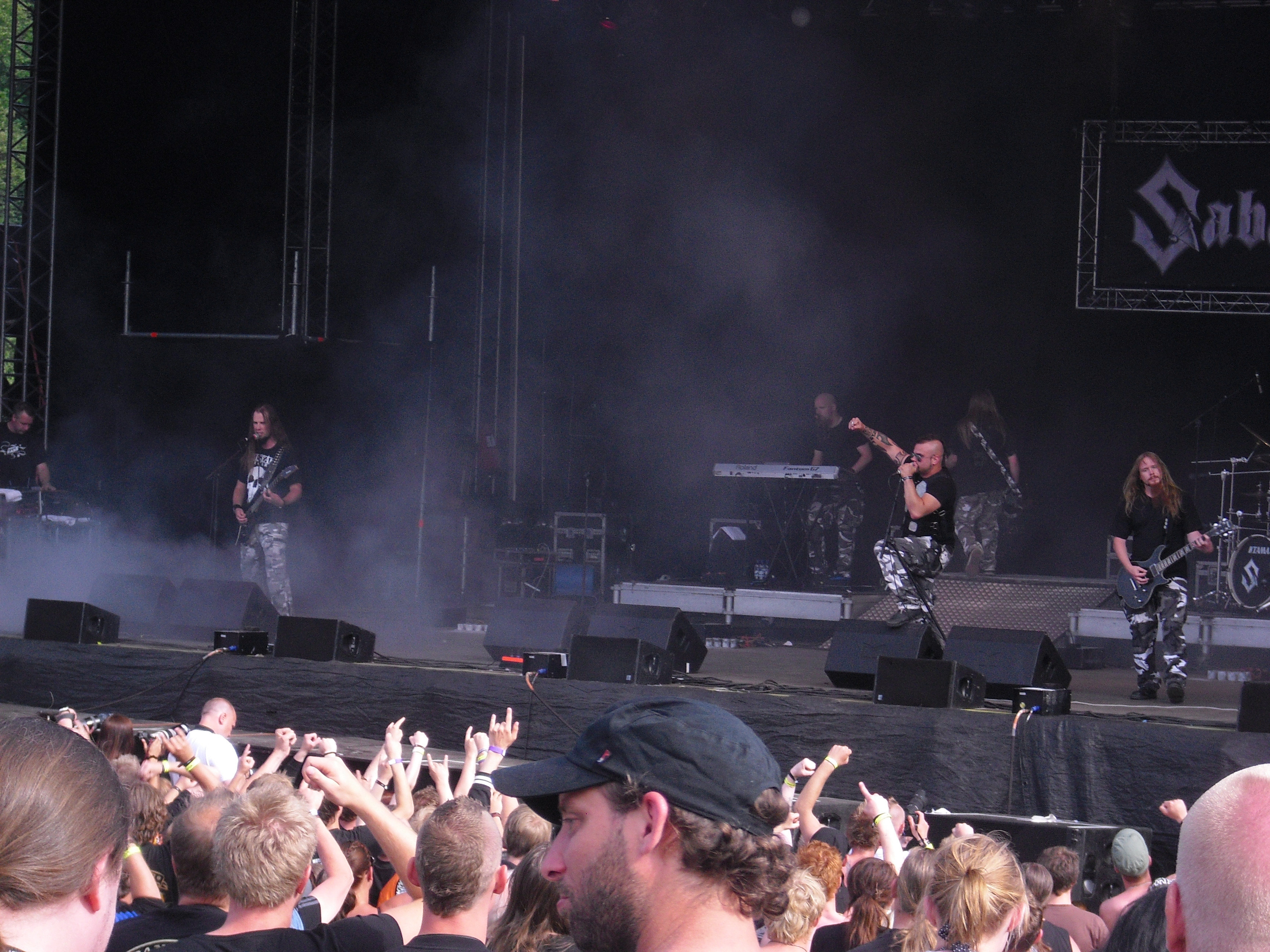 Sabaton performing live at Norway Rock Festival in July 2010